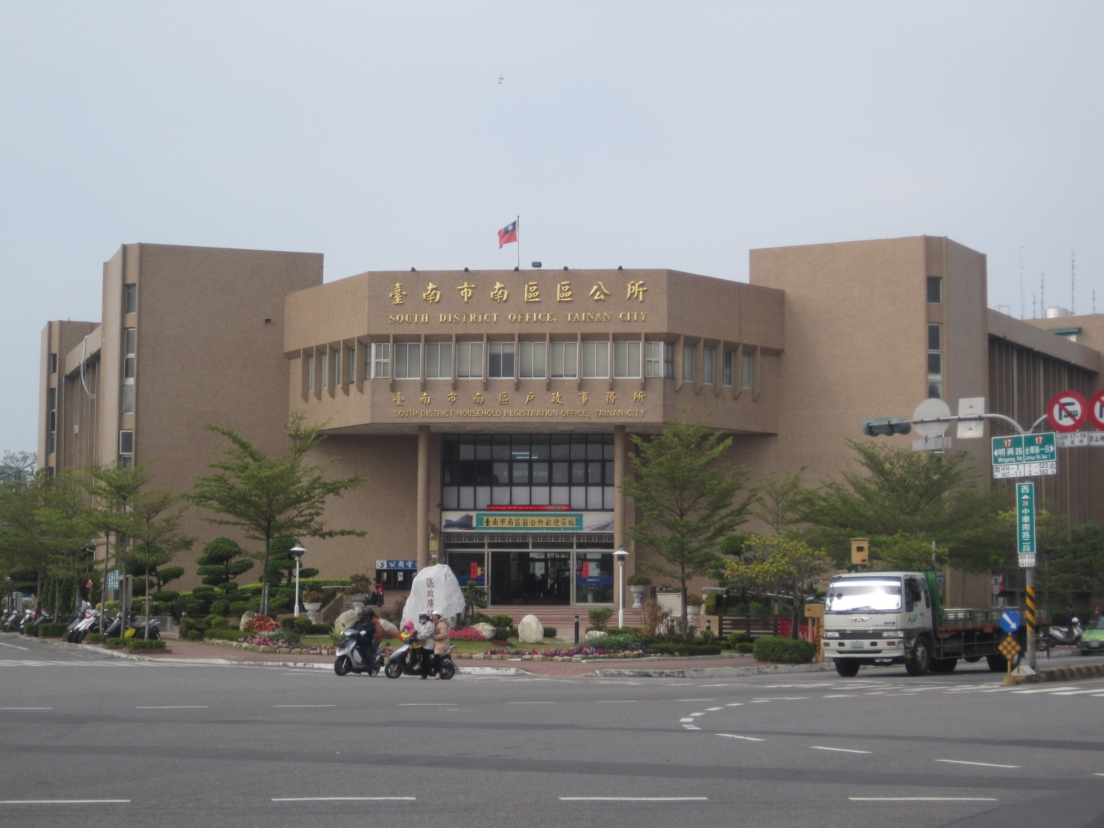 South District Office, Tainan City, Taiwan